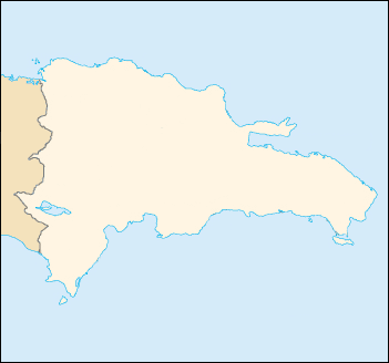 Blank map of the Dominican Republic